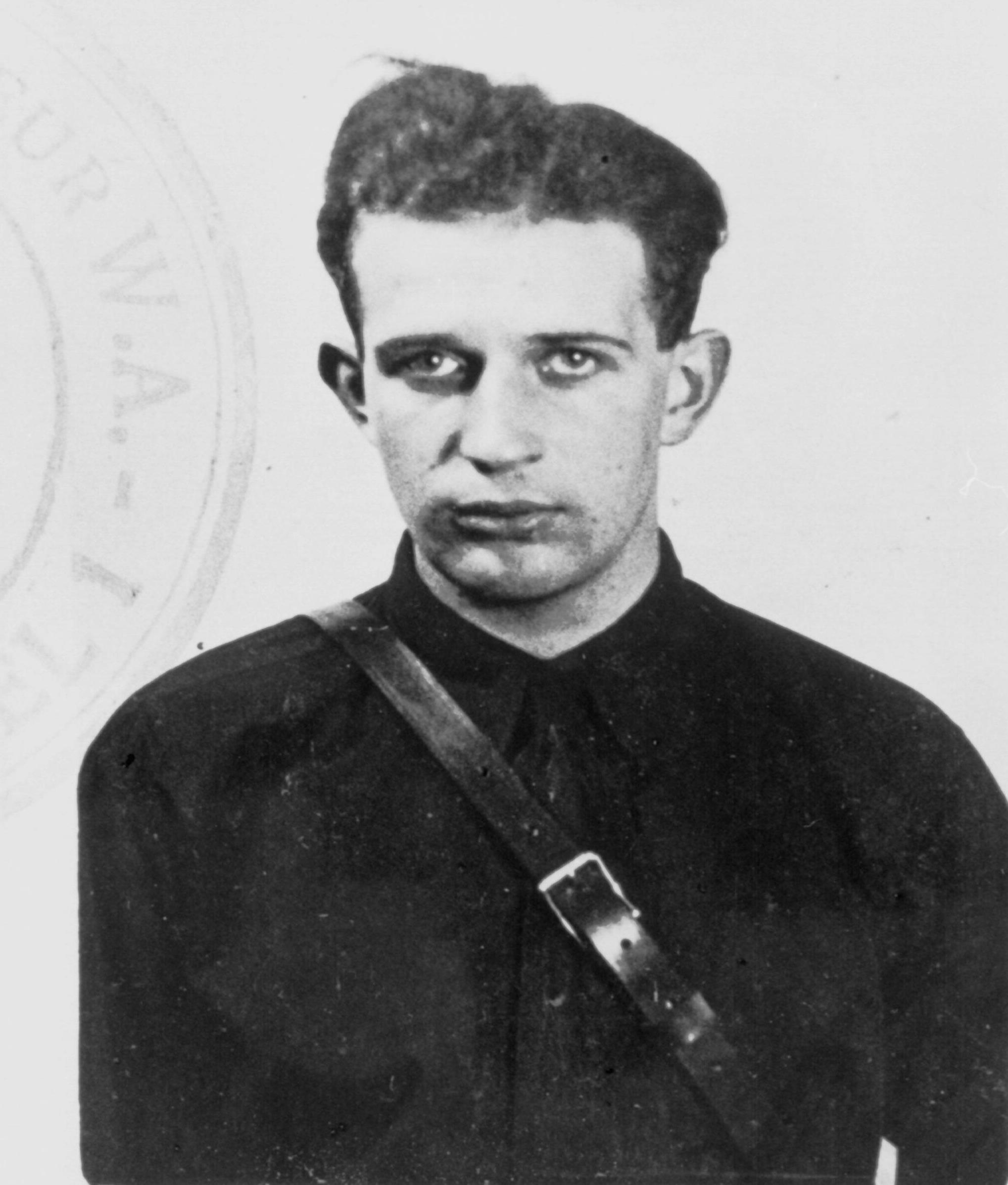 Pieter Johan Faber, Dutch member of the Sicherheitsdienst, executed in the Netherlands in 1948